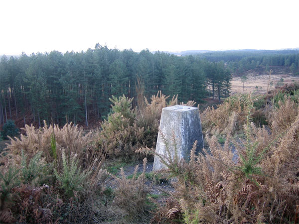 Trig Point on Woolsbarrow Hill Fort. As might be expected, there are excellent views in every direction from here. There is any easy track to the top for walkers and cyclists.